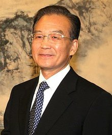 With Premier of the State Council of the People’s Republic of China Wen Jiabao.